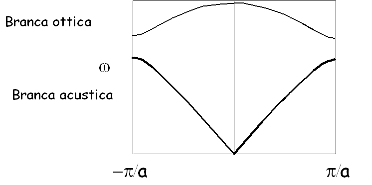 It is shown as appear the acustic and the optical branch of a diatomic chain